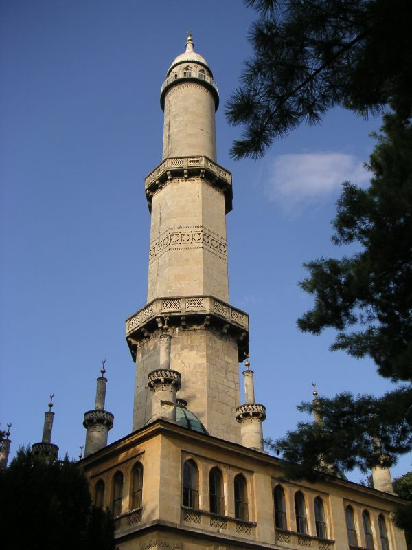 Minaret in Lednice.